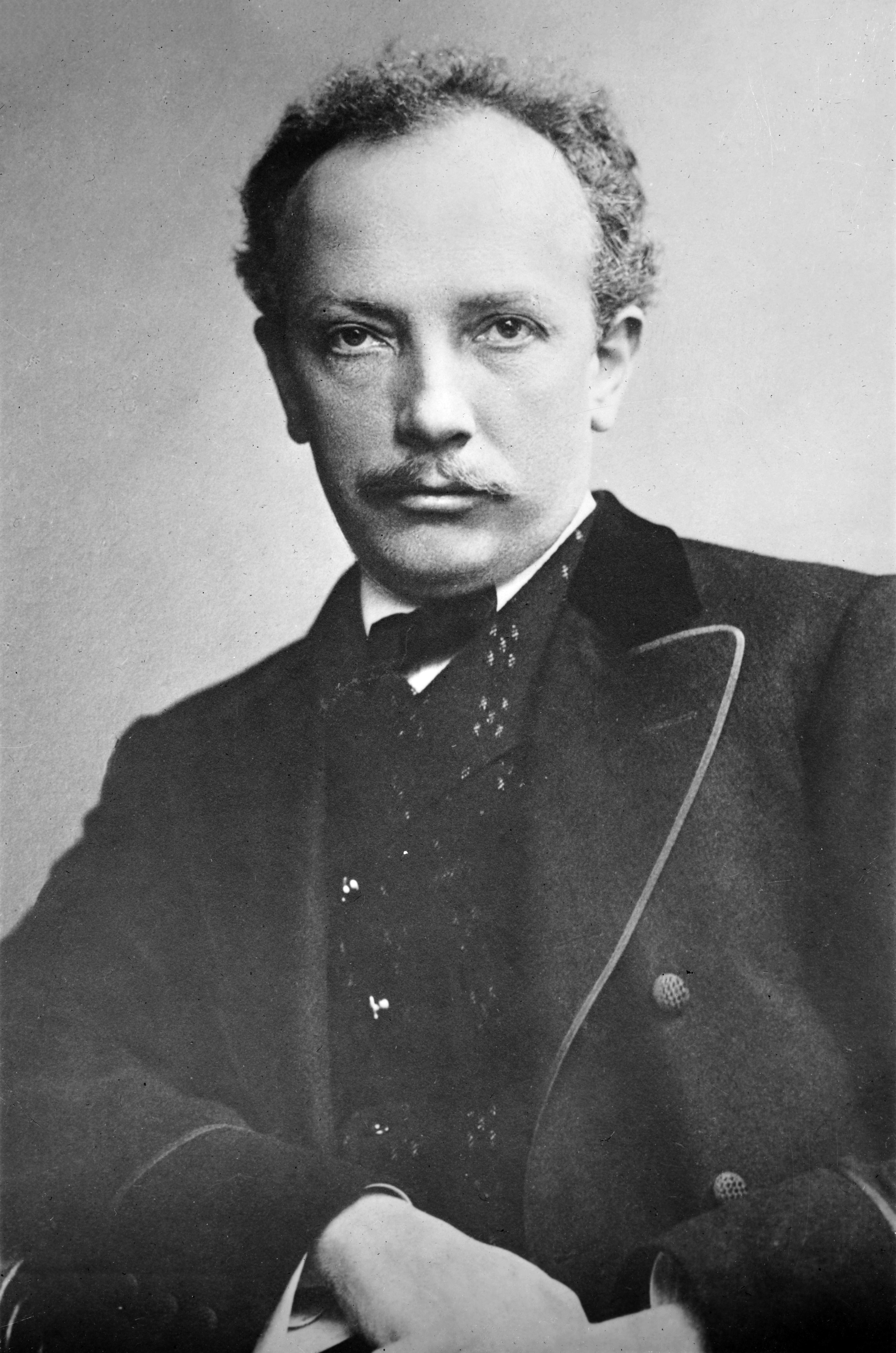 Postcard ~1910